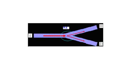 Splitter diagram ratio 1:2